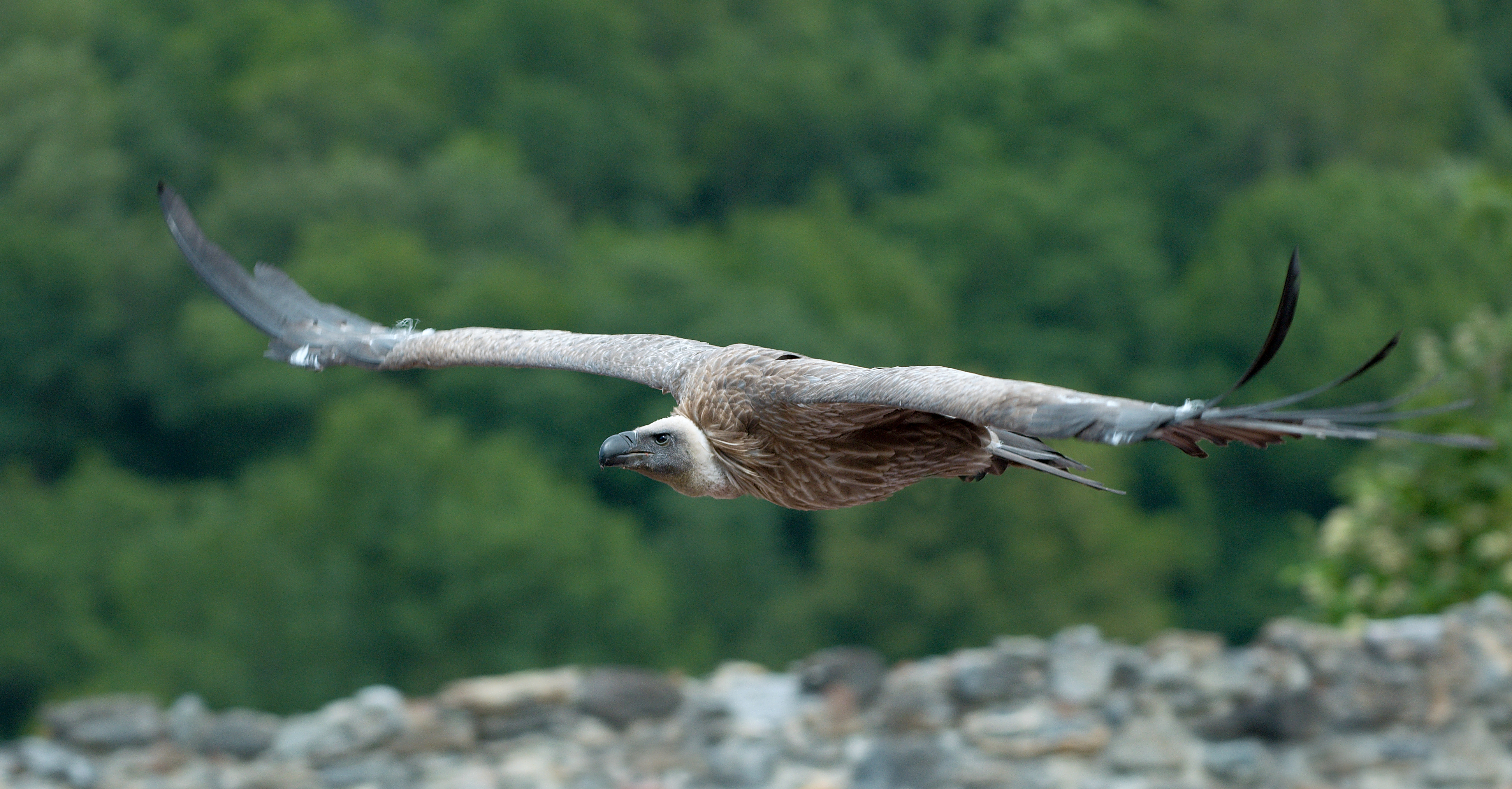 Griffon Vulture Gyps fulvus in France (Pyrénées).